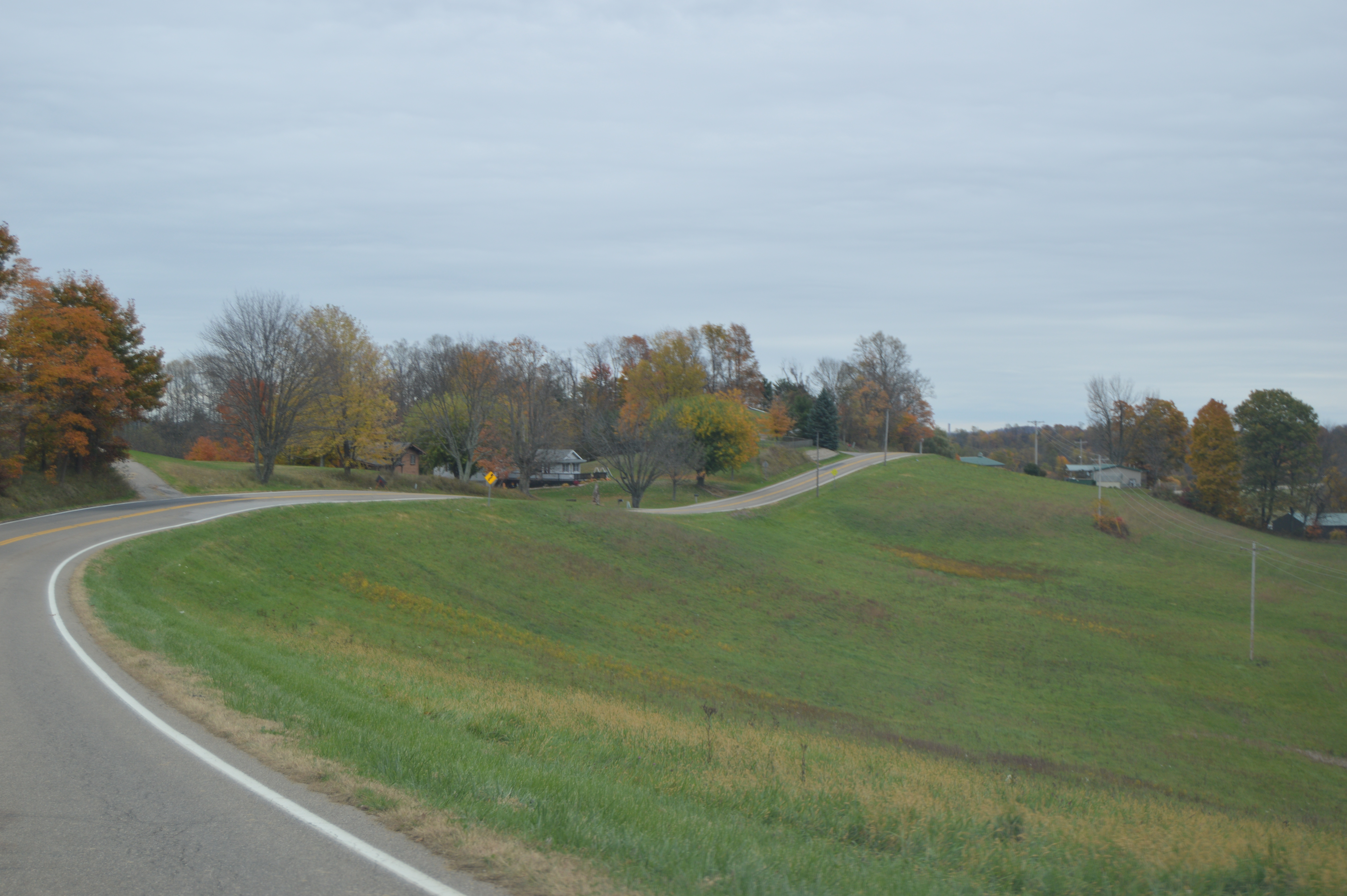 Looking eastward along State Route 556 east of Beallsville in northeastern Sunsbury Township, Monroe County, Ohio, United States.